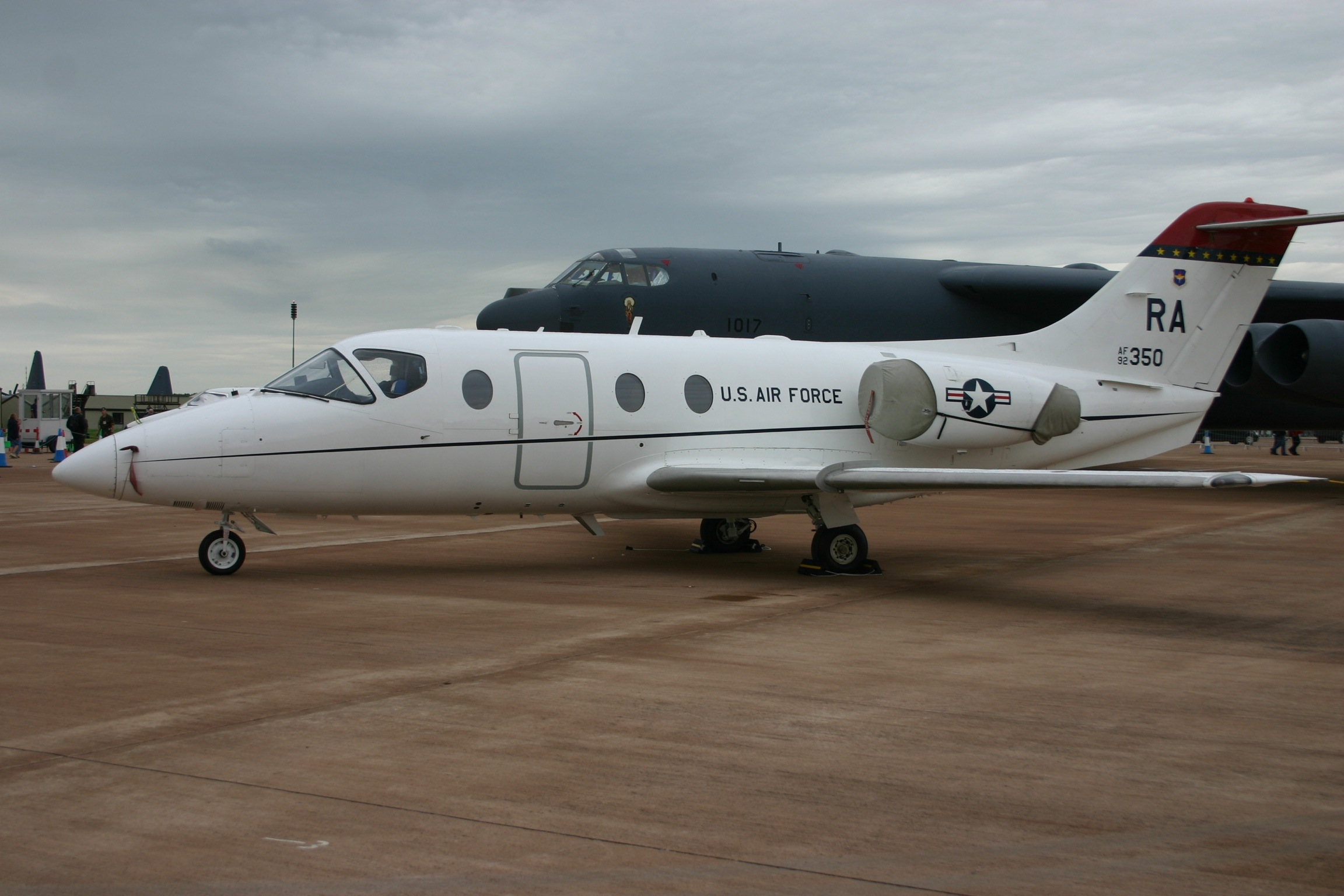 At RAF Fairford